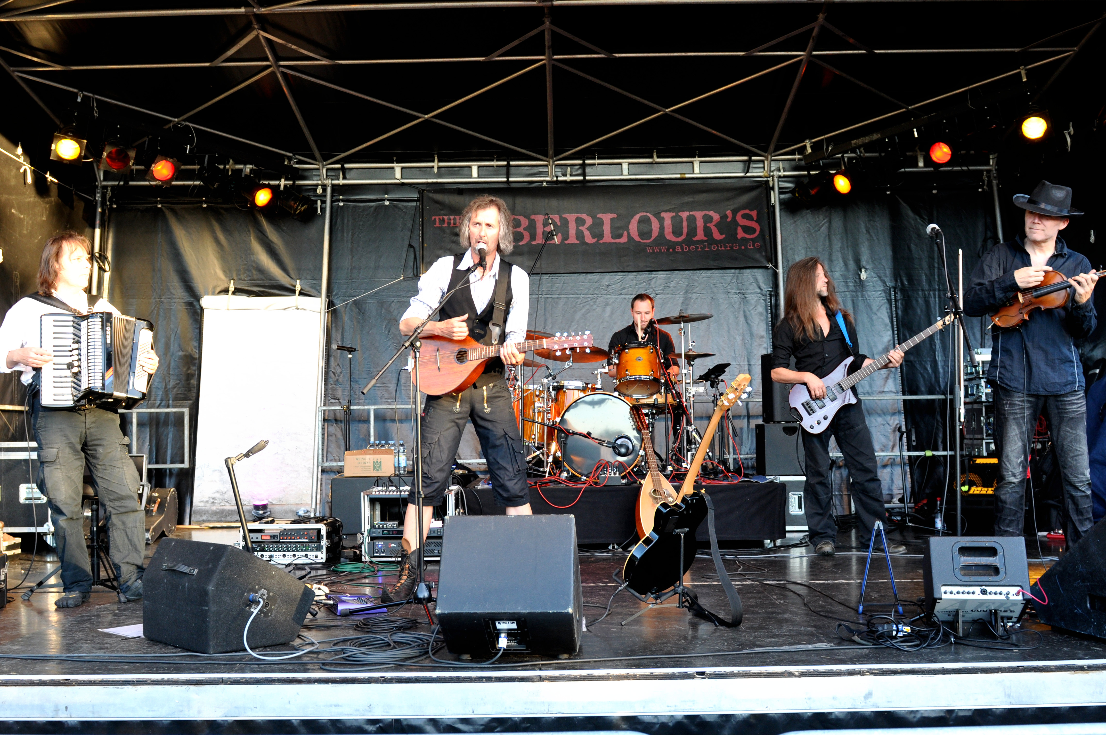 The Aberlour's (D), Folk am Neckar 2015, Mosbach-Neckarelz, Germany Festivalsommer This photo was created with the support of donations to Wikimedia Deutschland in the context of the CPB project "Festival Summer".